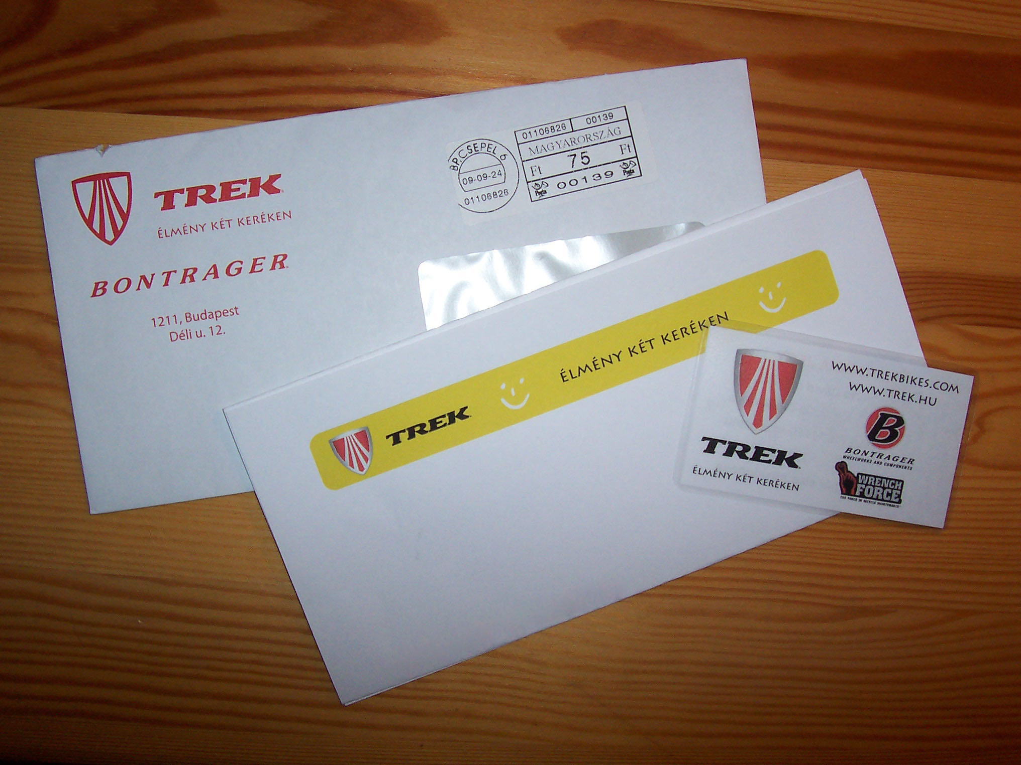 Hungarian Trek envelope, guarantee card and letter.